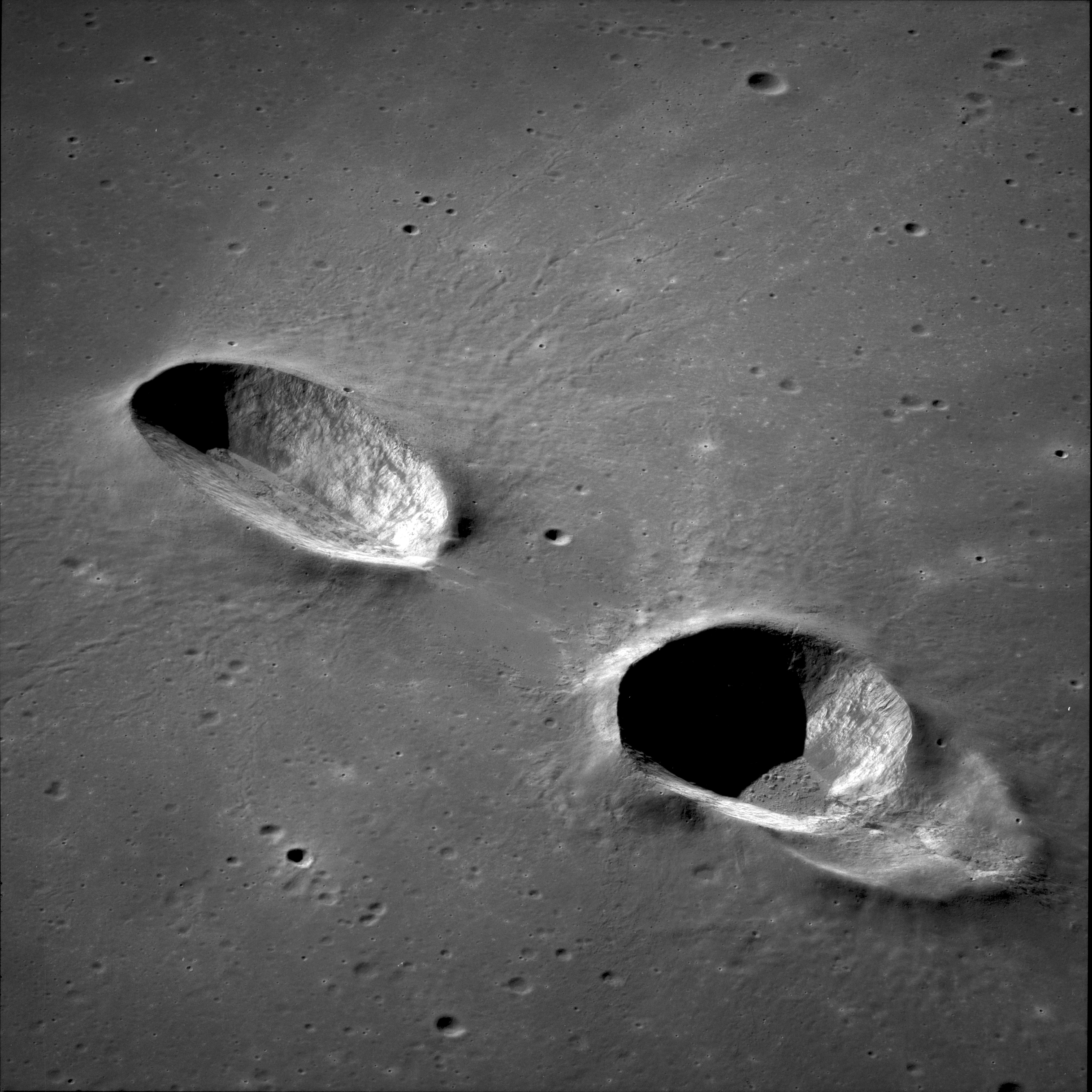 Craters Messier (left one) and Messier A (right one) on the Moon, in Mare Fecunditatis. Photo by Apollo 11 (1969), view from northwest.